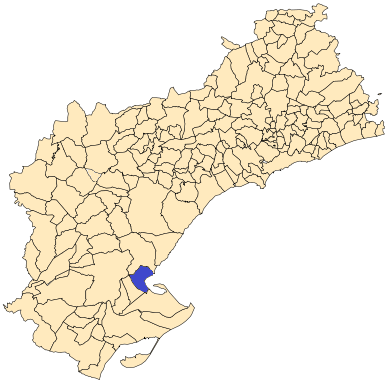 L'Ampolla